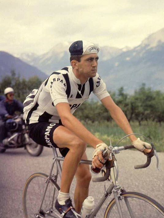 The Italian cyclist Italo Zilioli cycling holding a bottle of Coca Cola during the 21st stage of the Giro d'Italia Turin-Biella. Piedmont, 6th June 1964